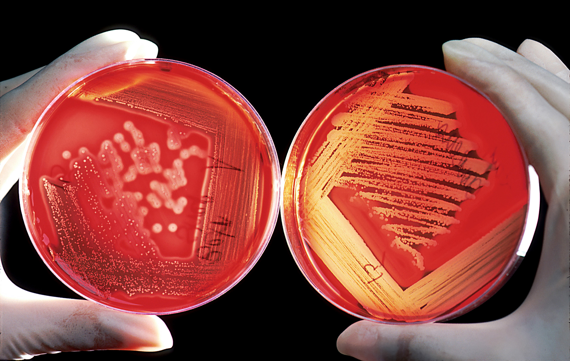 Sheep blood is added to growth media to enhance the nutrients available for bacterial growth. Laboratory scientists grow various bacteria on this medium as well as numerous other media, in order to help assess infections in humans and animals. The image on the right shows growth of a beta-hemolytic streptococcus. The bacterium has produced a hemolytic compound that has lysed the red blood cells surrounding each colony. The plate was properly streaked to attain isolated colonies. The plate on the left is growing a Staphylococcus species. The plate was streaked too heavily, so isolated colonies were not attained.